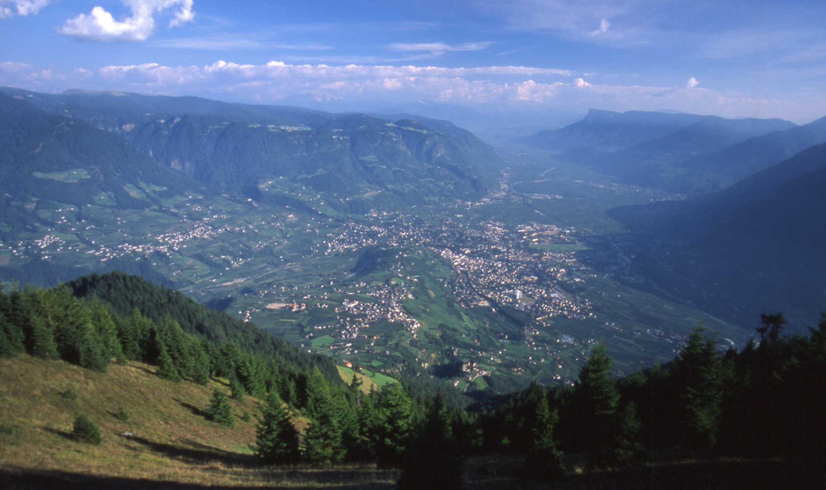 The city of Meran South Tyrol as seen from the Mountain to the North: the Mut